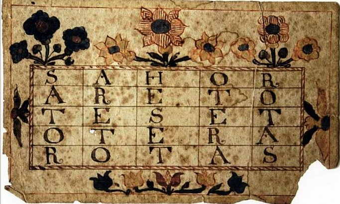 A Pennsylvania Dutch talisman dating to ca. 1790, this bit of illuminated folk art bears a variant of the familiar SATOR AREPO inscription. Two of the five words don't read the same left-to-right as top-to-bottom...